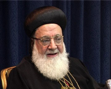 Ignatius Zakka I Iwas.